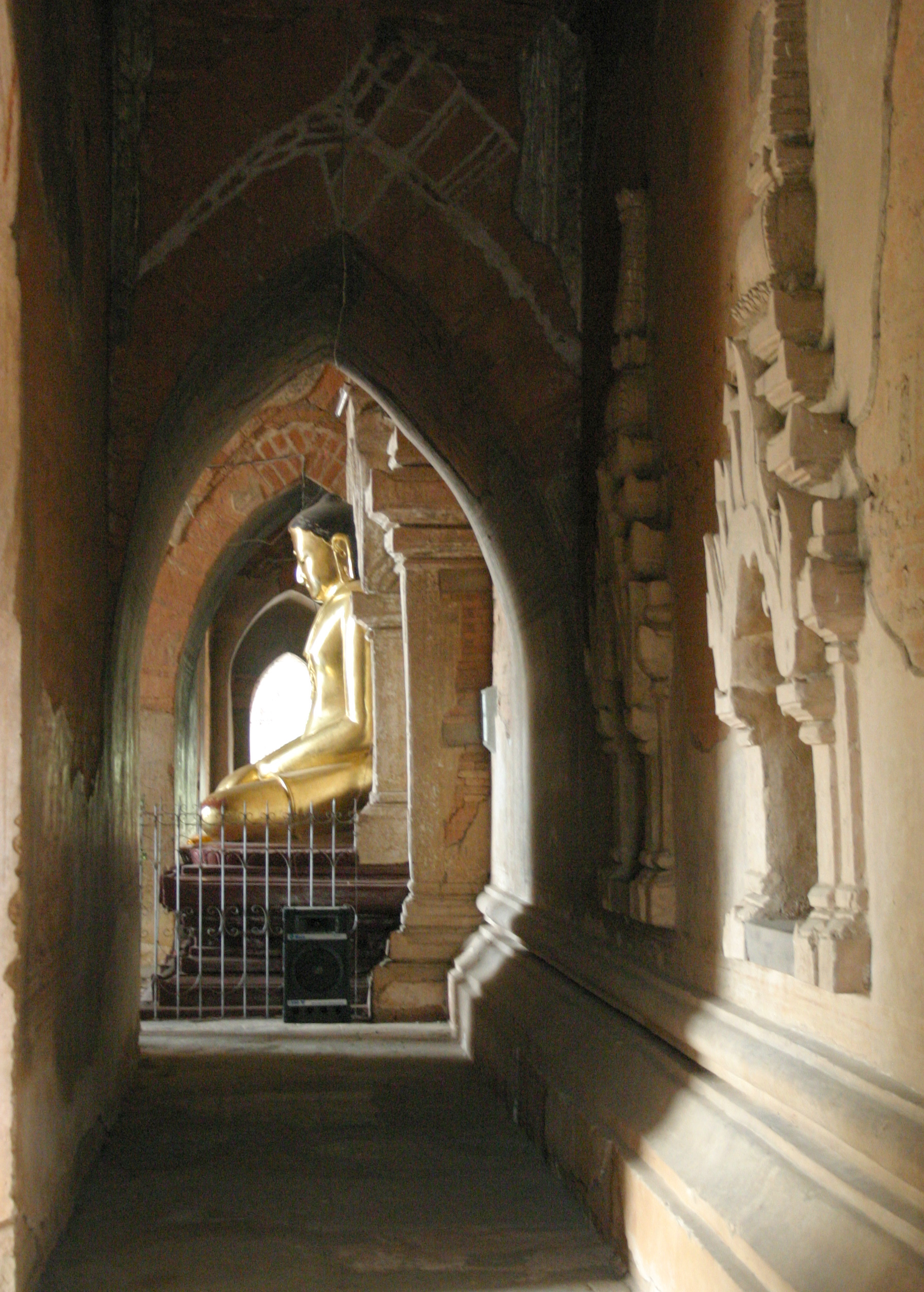 Htilominlo-temple in Bagan, Myanmar. Buddha.